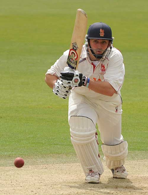 James Fulton drives 115 for the Army; July 29, 2008